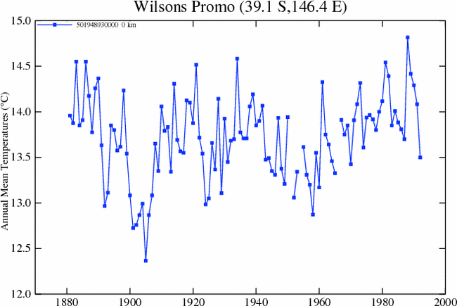 Climate graph of 1880 2008 air average temperaturas at Wilson's Promontory, Australia